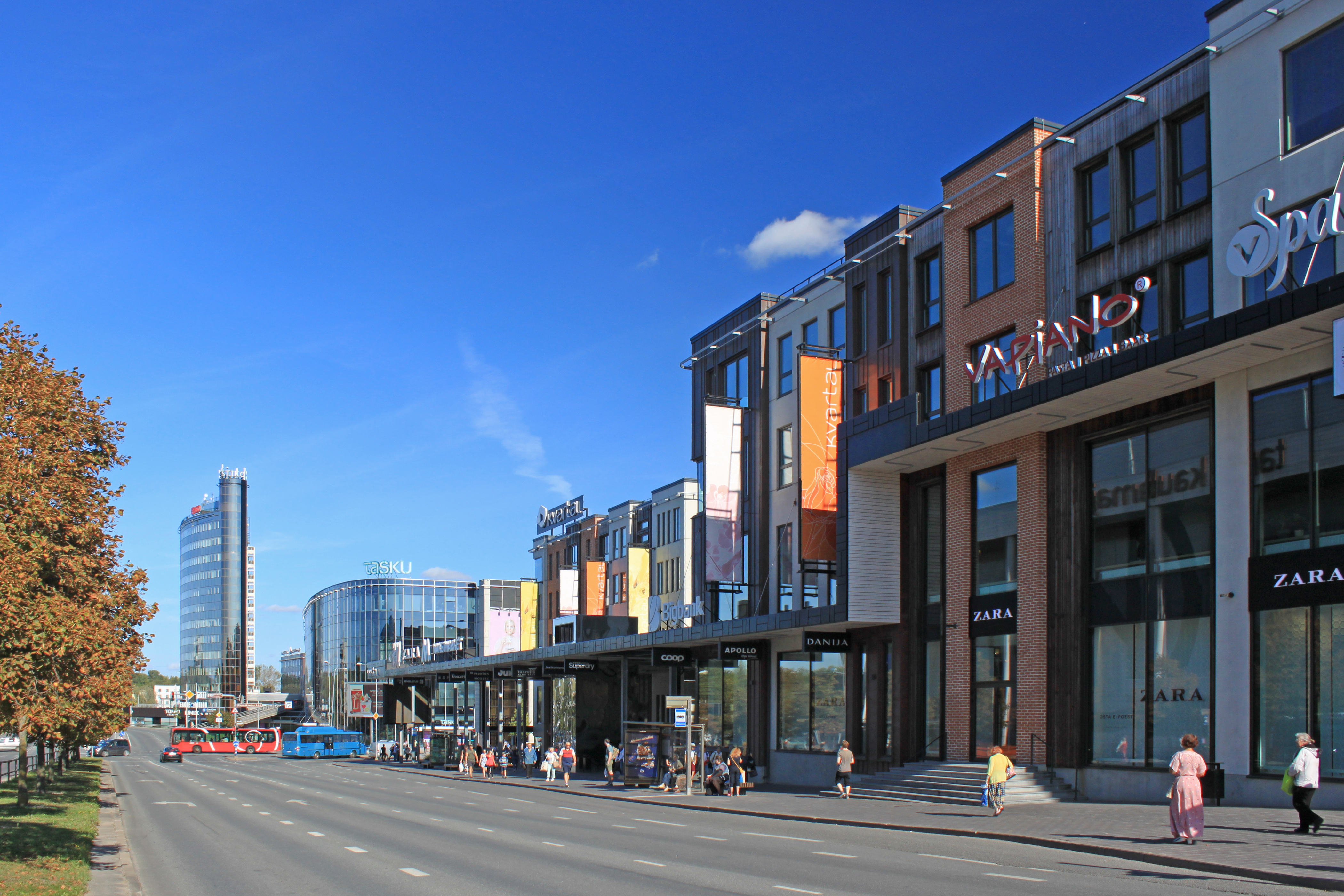 Riia street, Tartu, Estonia